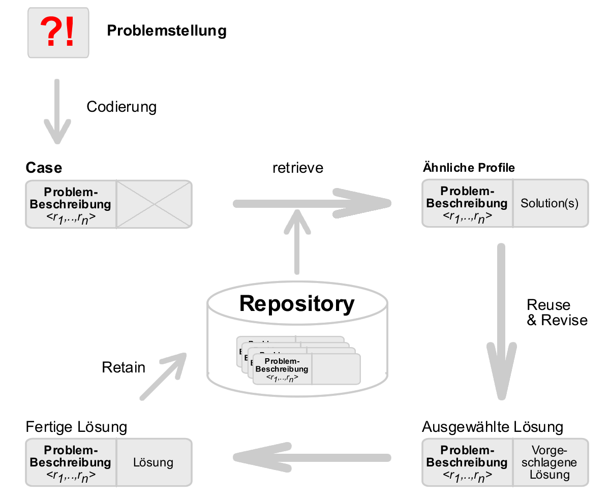 Graphical illustration of the CBR-Cycle for Case-Based Reasoning M.Pokrandt - Cljk 11:47, 29 December 2005 (UTC)